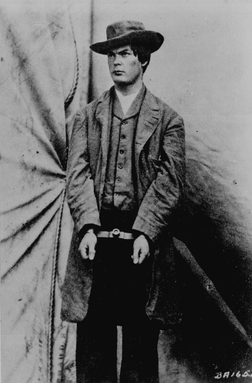 Lewis Powell (alias Lewis Payne), an associate of John Wilkes Booth, who attempted to assassinate Secretary of State William H. Seward on the same night that Abraham Lincoln was assassinated.